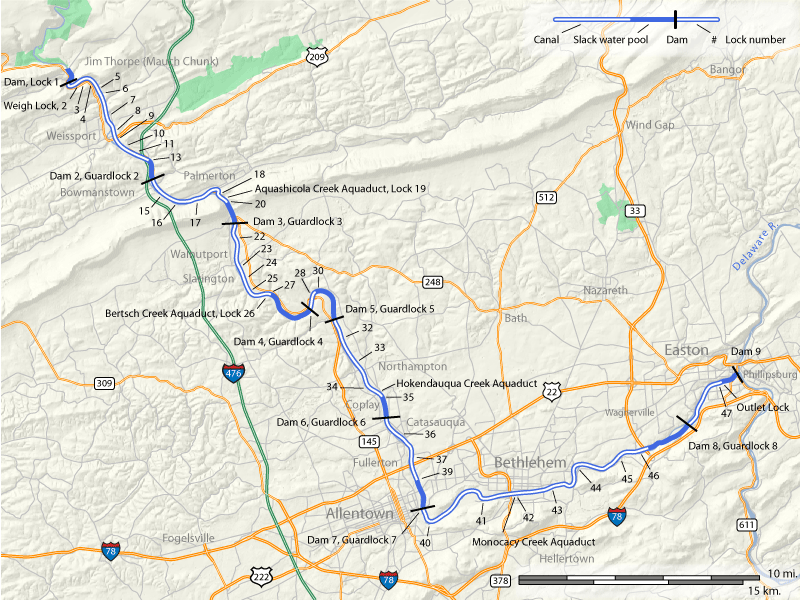 Map of (what later became) the lower division of the 44 miles of the original Navigations (1818-1820) improving water transport on the Lehigh River. Built and maintained by the Lehigh Coal & Navigation Company, the Navigation was commonly known as the Lehigh Canal. The map shows the Lehigh Canal as it was near the end of its life in the 1930's, not as it was originally configured in 1818-1820. As originally re-constructed in 1827-1829, the canal had 49 lift locks and 8 dams and guardlocks. Two of the guard locks, at dams 2 and 5, were lift locks and are included in the count of the lift locks. Improvements to the canal eliminated lock numbers 12, 21, 38, 48, and 49. A ninth dam was built at the mouth of the Lehigh River, and the canal outlet was moved approximately 2,200 feet upstream of locks 48 and 49. This map of the lower division of the Lehigh Canal was constructed from the following sources: Pennsylvania Department of Transportation Highways, 2010 2010 Tiger/Line shapefiles for New Jersey counties 2007 National Transportation Atlas Database highways National Hydrography Dataset National Elevation Dataset Federal Agricultural Adjustment Administration aerial photography in the 1930's (available online at PennPilot) Pennsylvania State Parks dataset The base maps were assembled, and the AAA aerial photos were used to locate the canal channel and its dams and locks. The AAA photos were orthorectified prior to plotting the features.